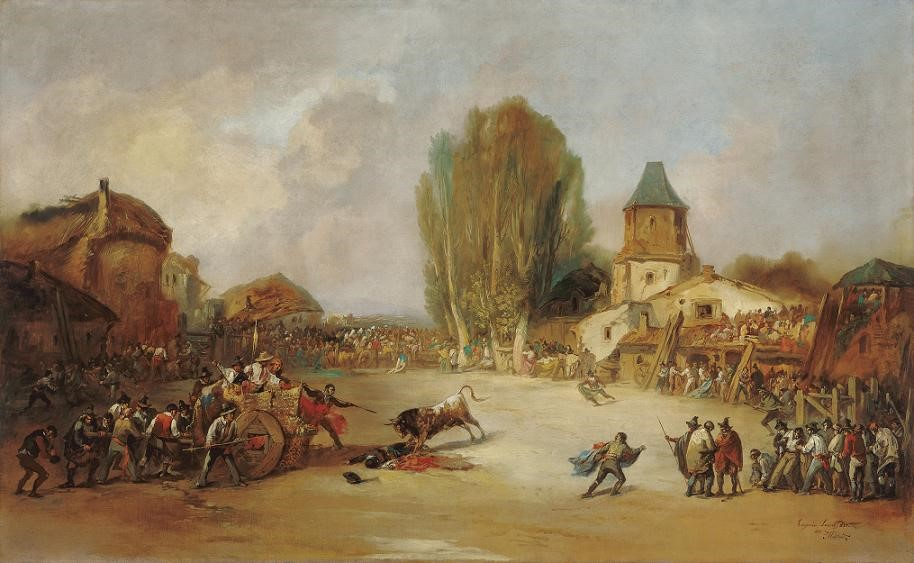 óleo sobre lienzo